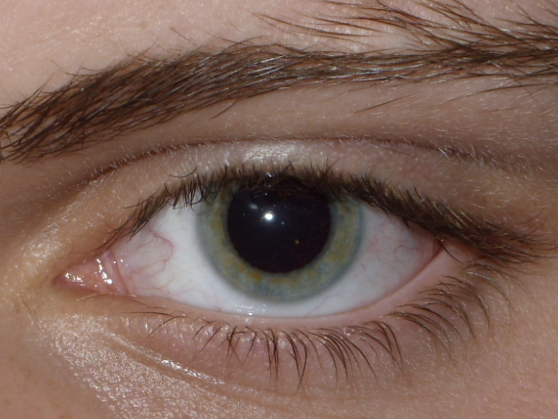 Result of Dilated fundus examination